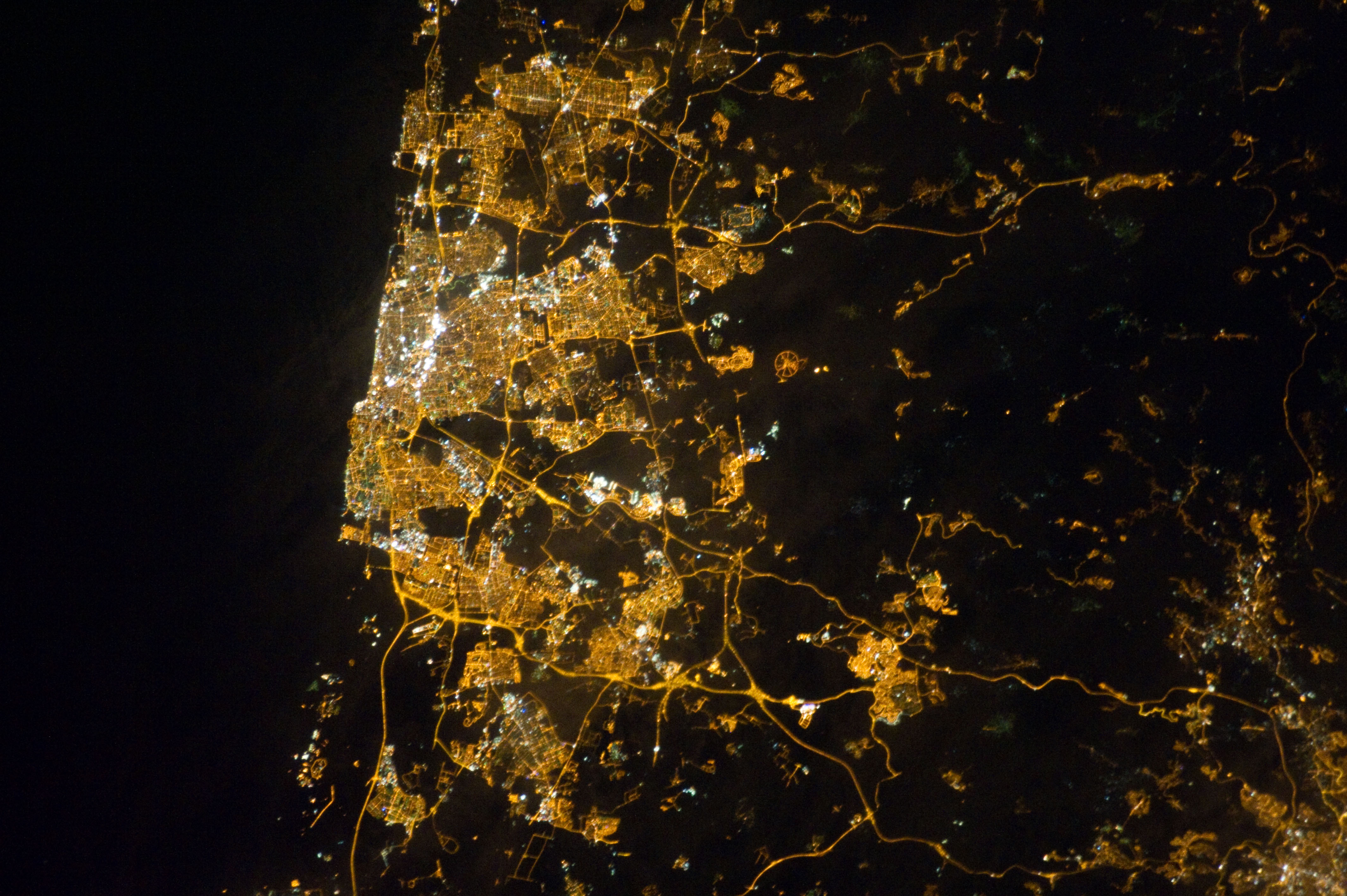 Astronaut photo of Tel Aviv, Israel and the surrounding area at night taken from the International Space Station (ISS) during Expedition 26 on February 22, 2011.Additional photos can be found on the Gateway to Astronaut Photography of Earth website at